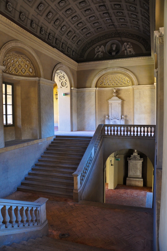 Central Staircase in University of Pavia.